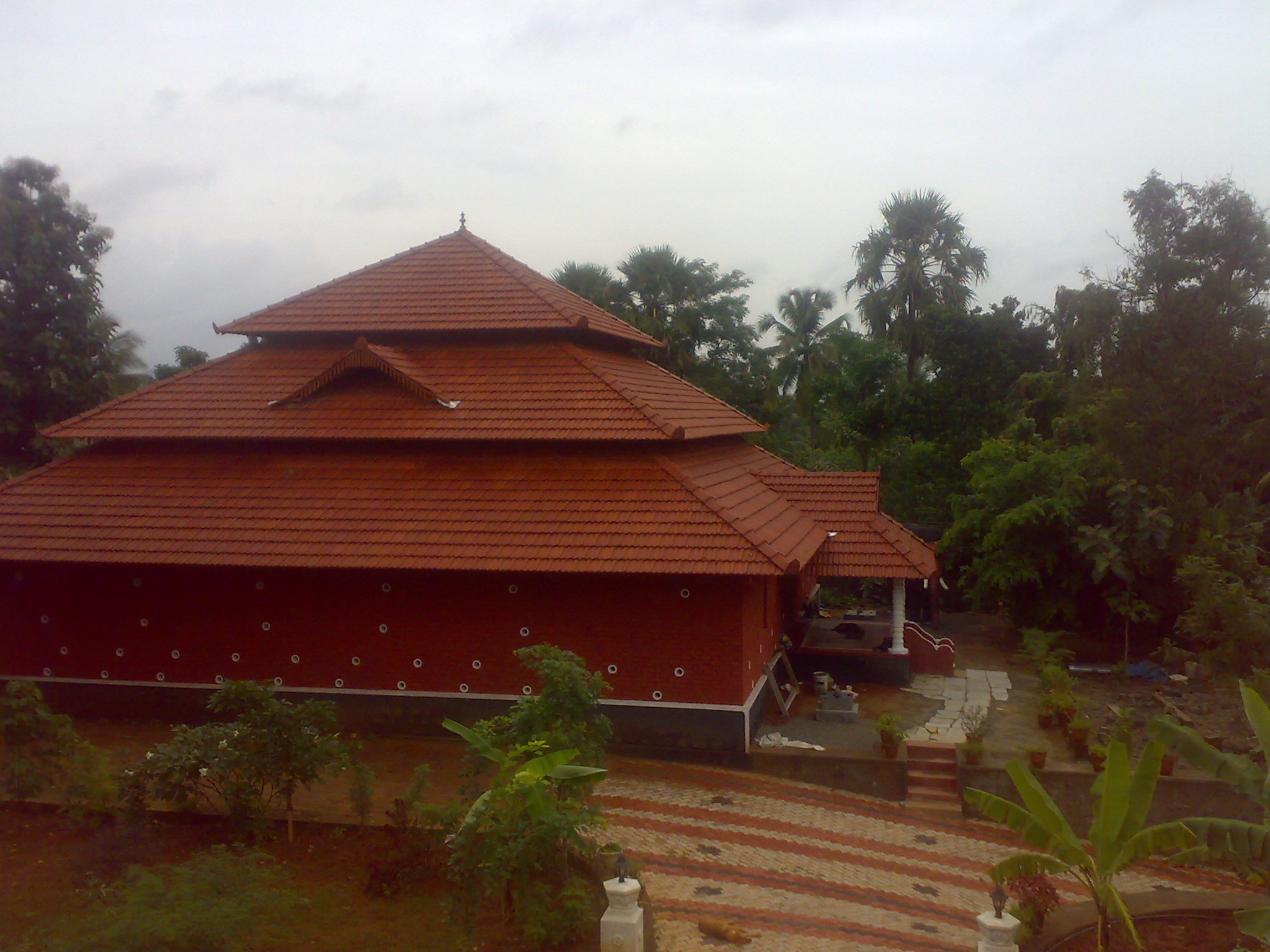 Trigarbha Kudi For Kayakalpa Chikitsa In Padinharkkara Ayurveda Hospital In Palappuram